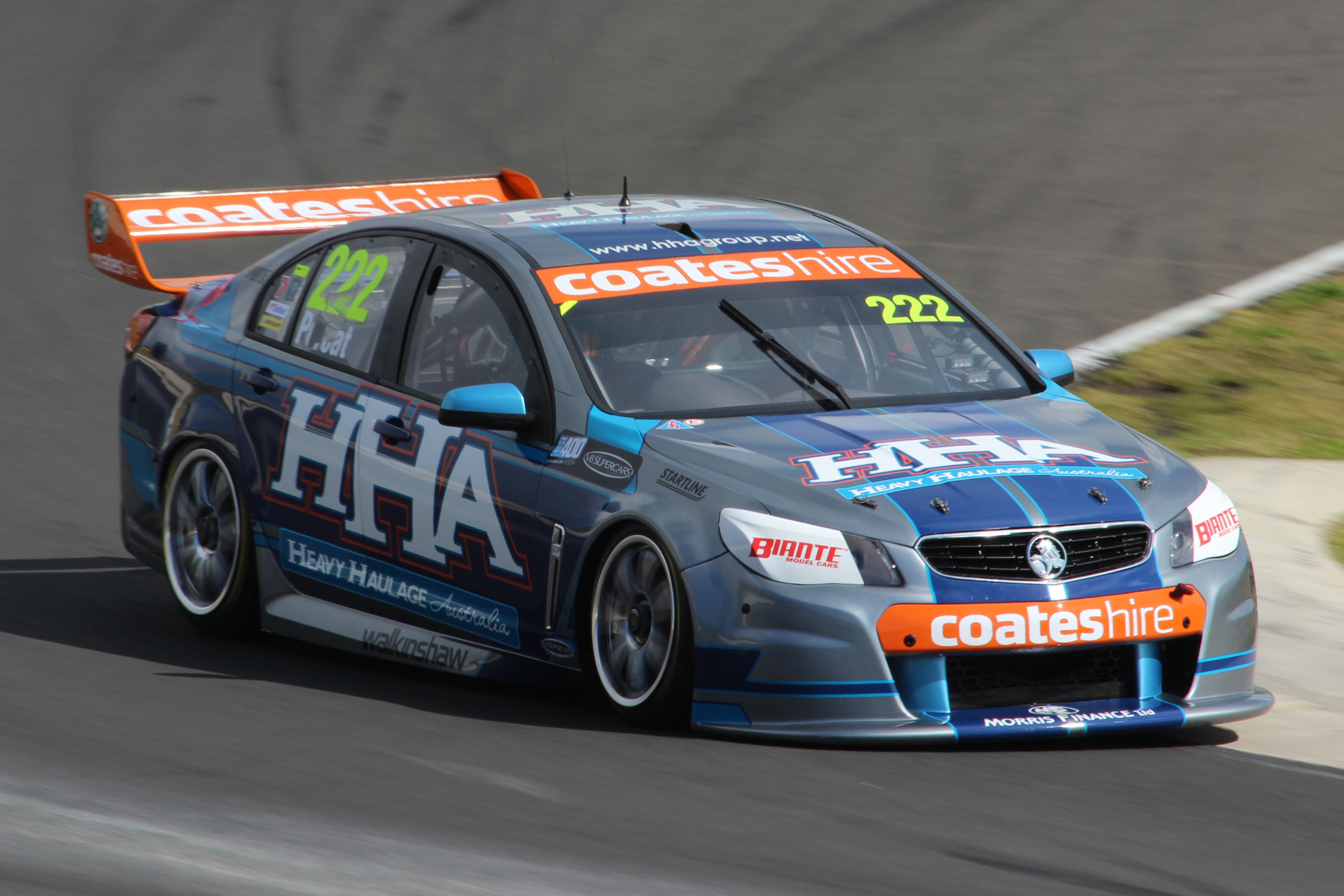 Nick Percat driving the James Rosenberg Racing Holden VF Commodore at the 2014 Sydney Motorsport Park 400.